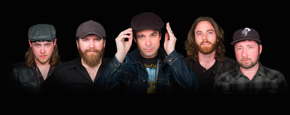 The Stanfields - Group Photo